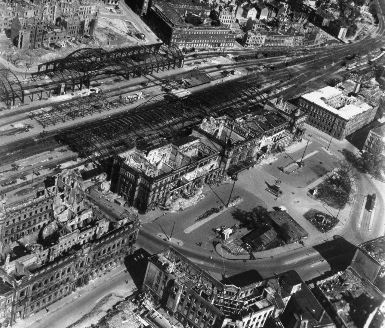 Hannover main station in autumn 1945.